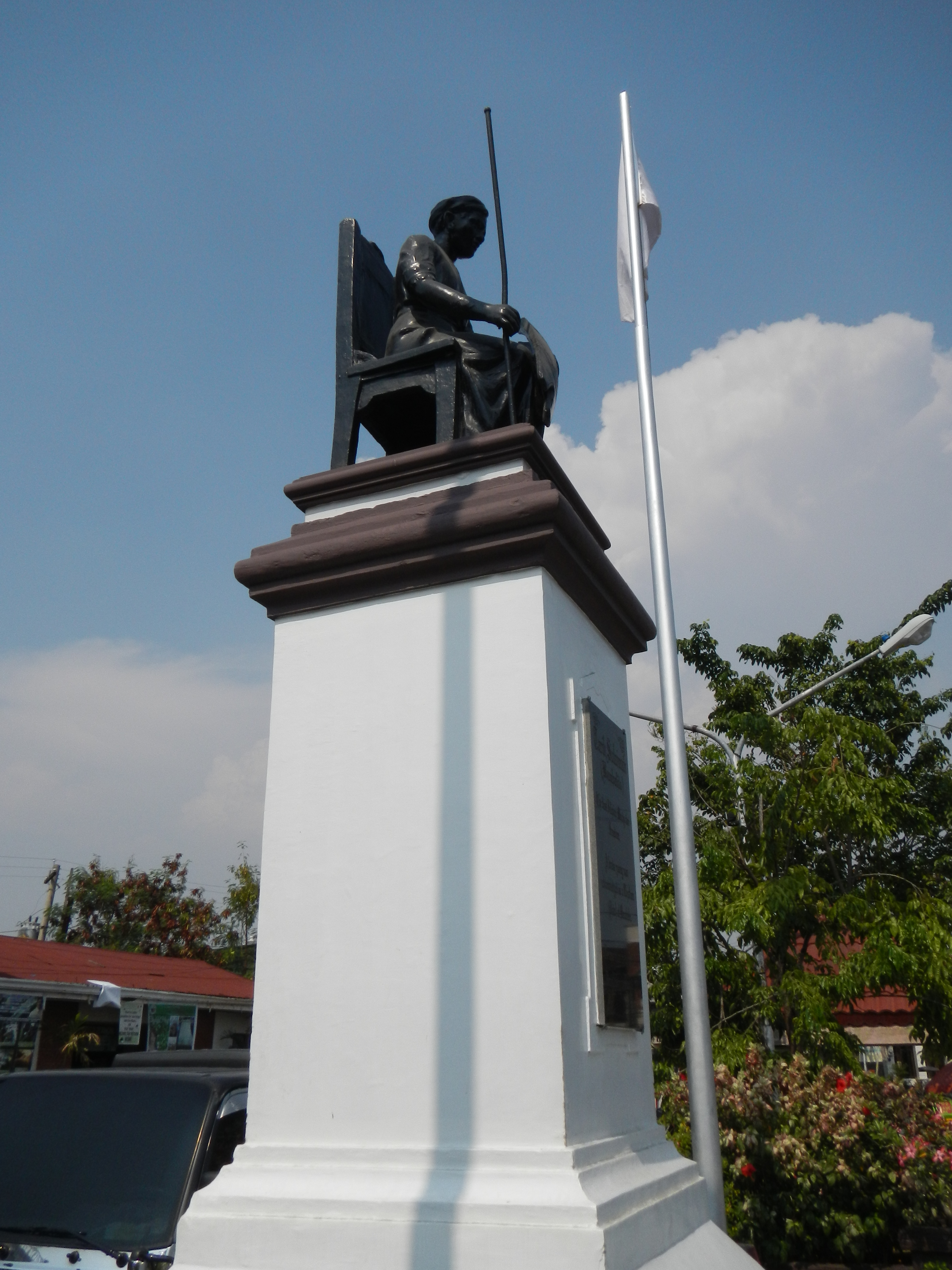 Macabebe, Pampanga, Municipal Hall Complex, Compound, and Park including therein the Monument, Memorial of Bambalito, Tarik Sulayman Battle of Bankusay Battle of Bankusay Channel.